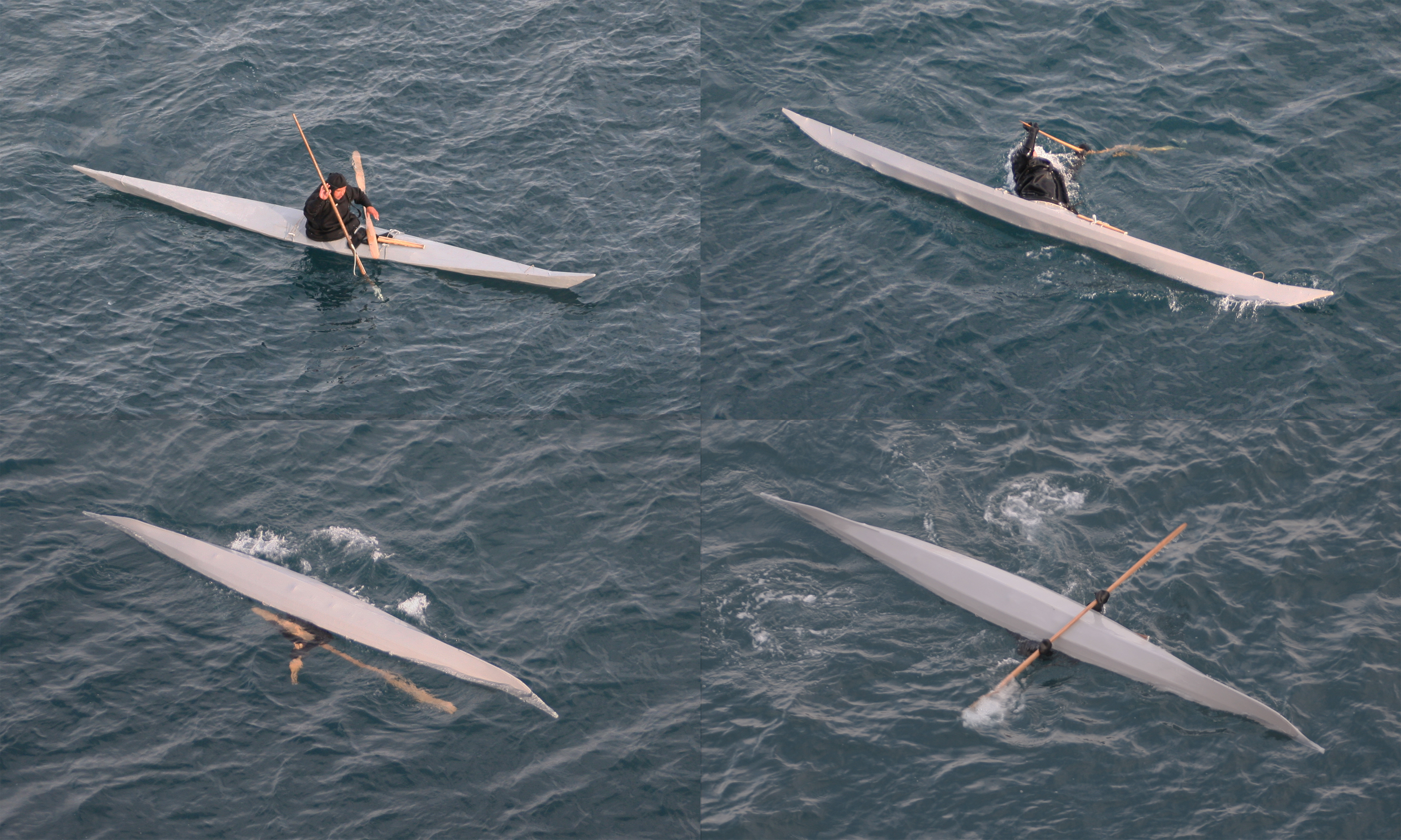 Inuit man demonstrates traditional kayaking technique used for hunting on narwhal in Qaanaaq